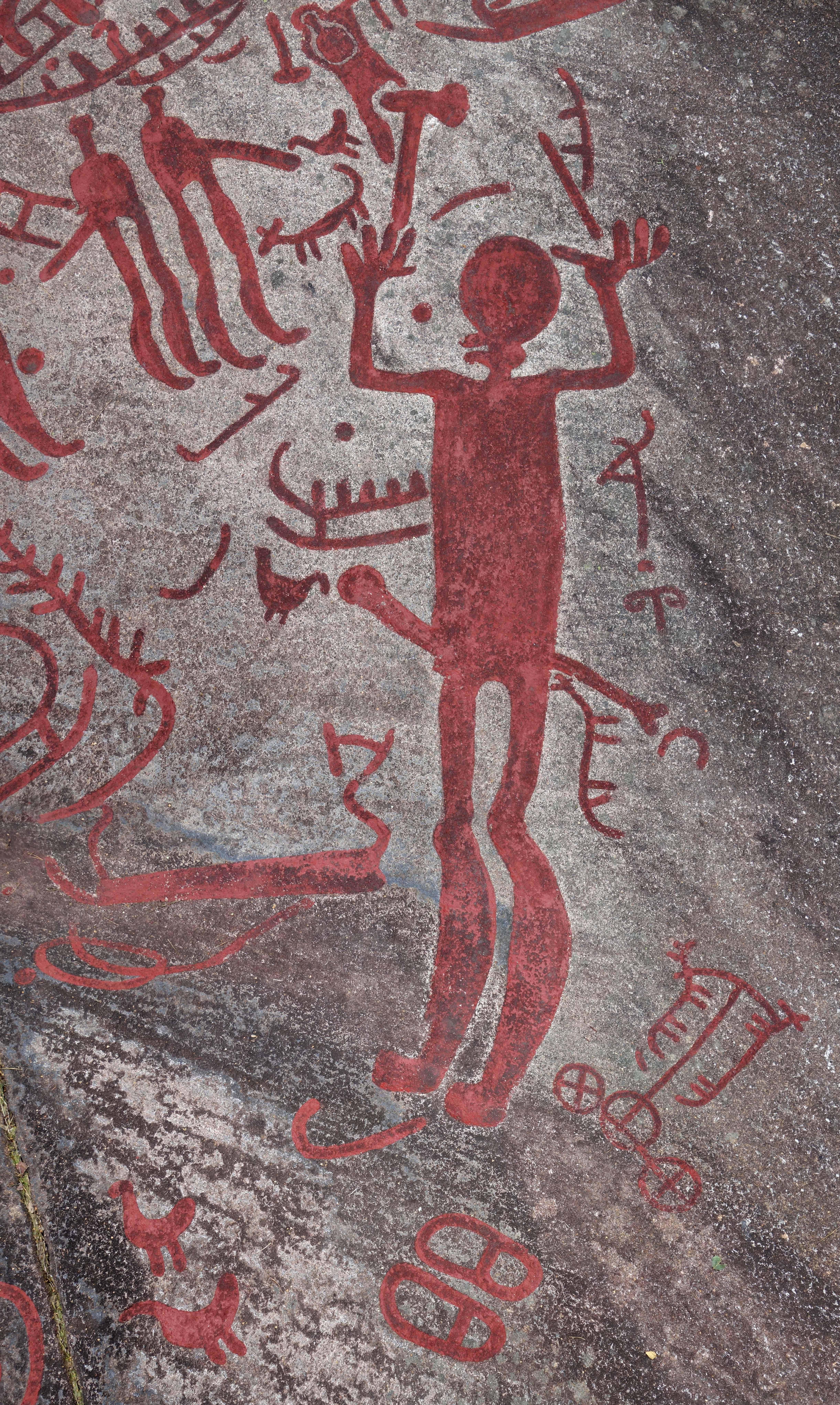 The Cobbler (Skomakaren), a detail of the Bronze Age (1700–500 BC) petroglyphs at Cobbler's Cliff (Skomakarhällen) in Backa Petroglyph Area (or Backa Rock Carvings) Brastad, Lysekil Municipality, Sweden. The figure is most likely a representation of the Weather God, a predecessor to Thor, but has been given the name "The Cobbler" after the shape of the hammer he is holding. The figure is 1.60 meters high and one of about 600 images in 32 areas along what is called the Via Sacria "The Holy Road", an ancient road through an area that most probably was a religious center. The figure is carved on a almost horizontal part of a curved cliff. Because of its size and placing, this photo is made in panorama technique from several images to get a picture of the figure without any distorted proportions.